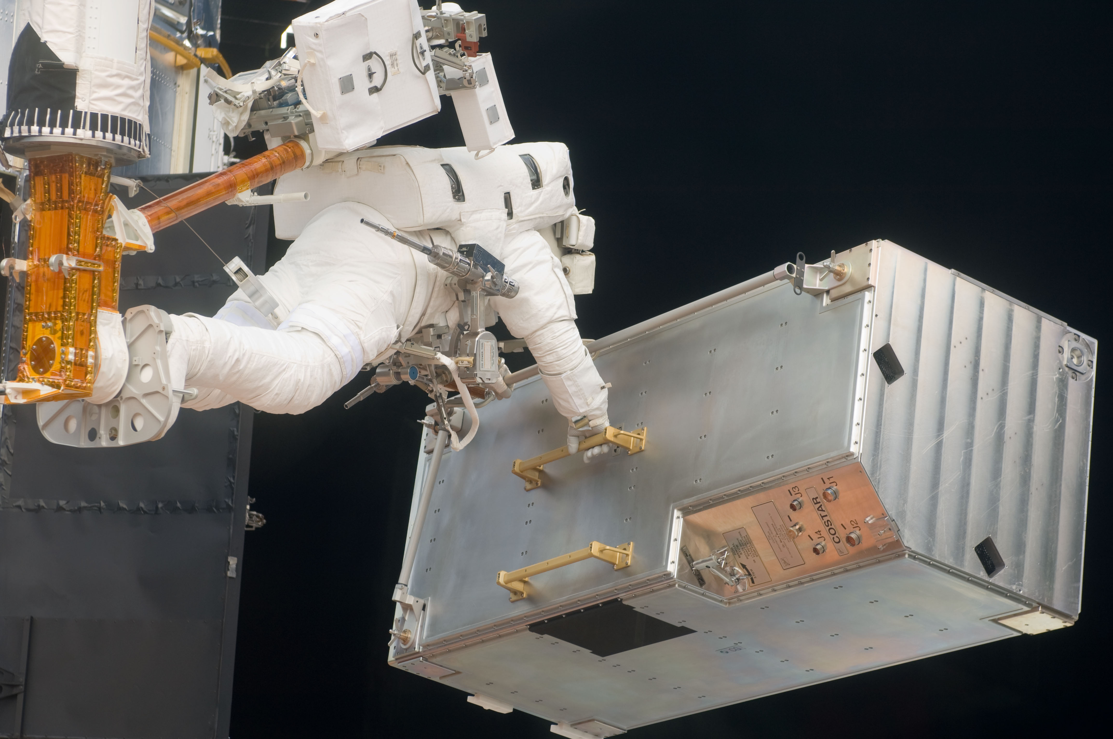 Astronaut Andrew Feustel, STS-125 mission specialist, positioned on a foot restraint on the end of Atlantis' remote manipulator system (RMS), moves the Corrective Optics Space Telescope Axial Replacement (COSTAR) during the mission's third session of extravehicular activity (EVA) as work continues to refurbish and upgrade the Hubble Space Telescope.